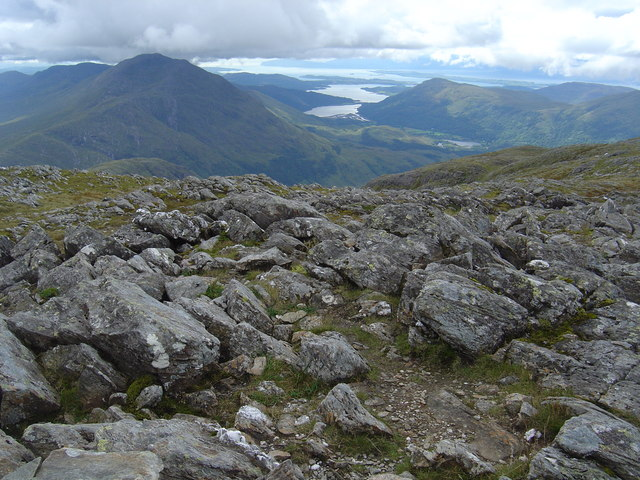 View SW from Beinn Fhionnlaidh Bouldered summit of Beinn Fhionnlaidh looking SW. Beinn Sgulaird the peak to the left. Loch Crerran centre. Isle of Mull in background topped by clouds.